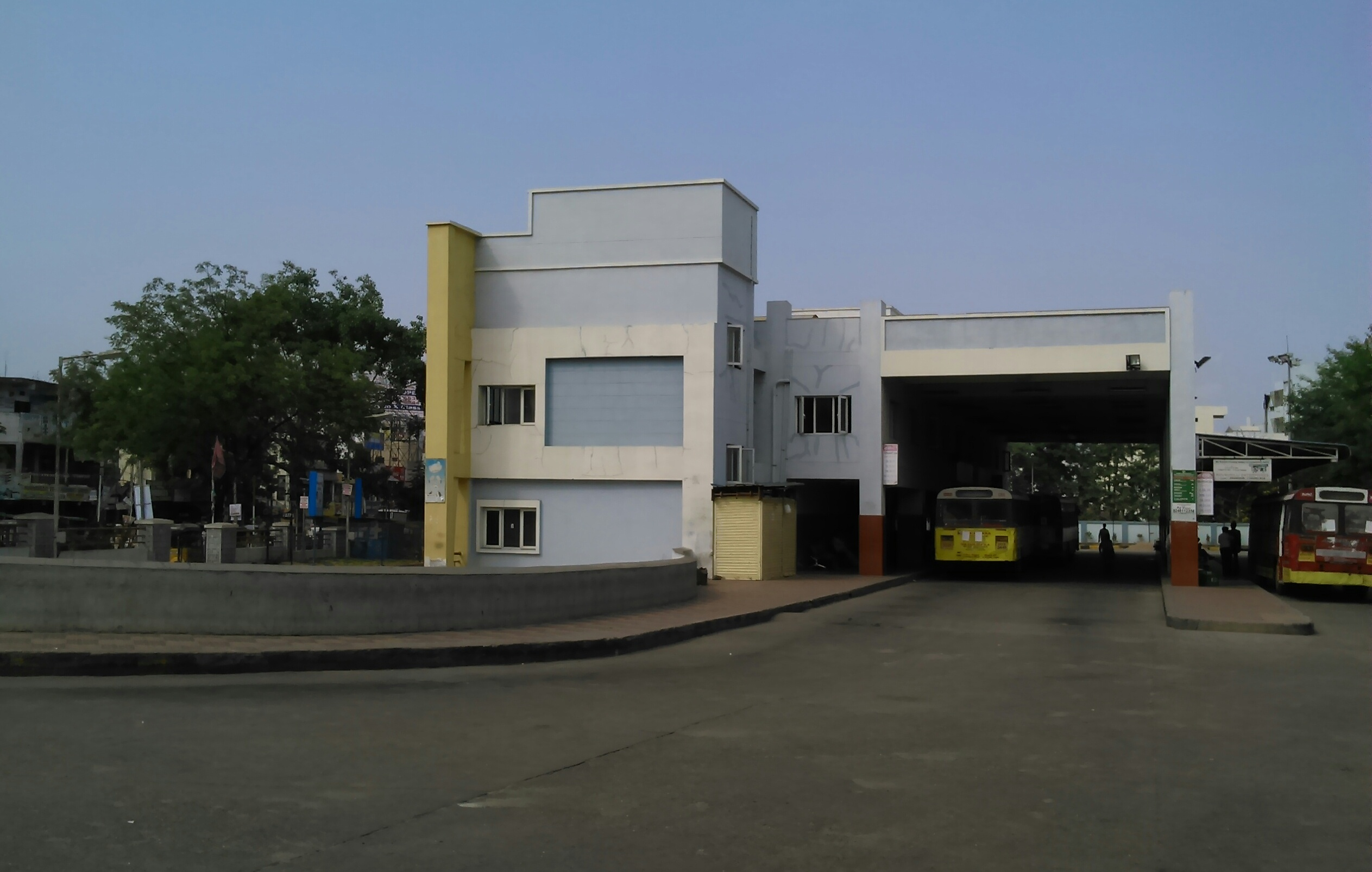 Buses enter the station from here.